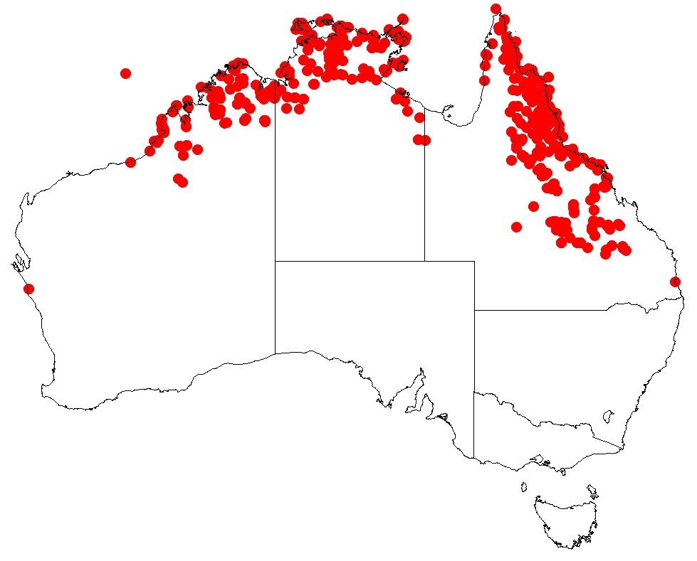 Persoonia falcata Occurrence data downloaded from Australasian Virtual Herbarium on 30 October 2018 from